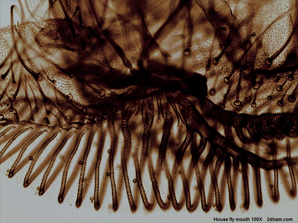 House fly mouth Magnified 100 times